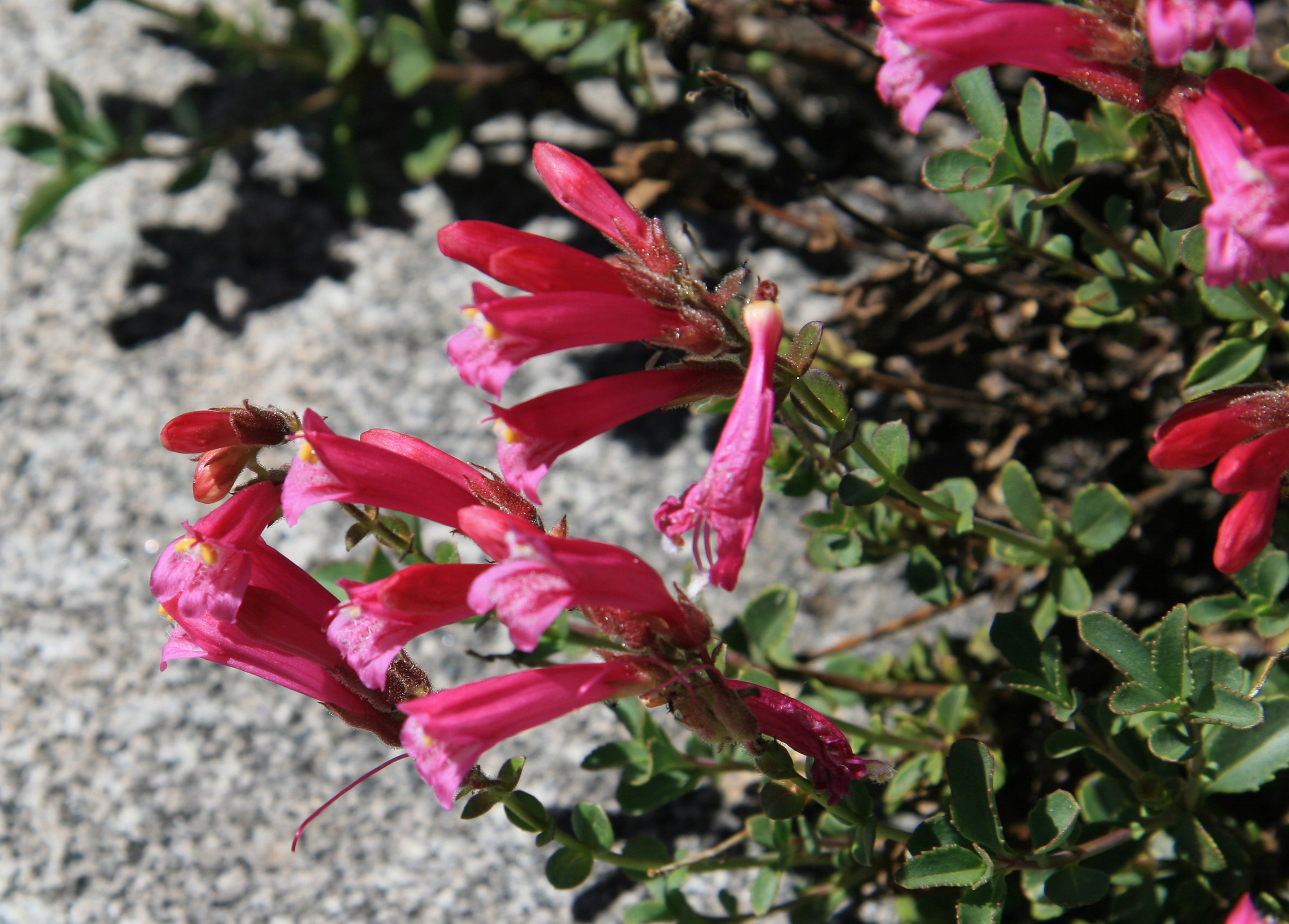 Pride-of-the-mountain (Penstemon newberyi) closeup of flowers. On bench S of Donahue Pass, Ansel Adams Wilderness, California.